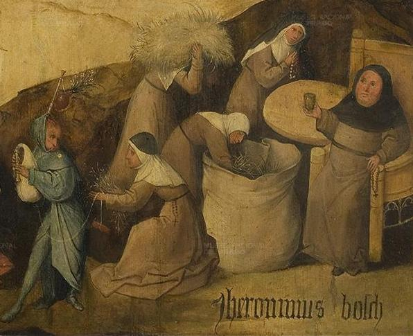 The Hay Wagon, detail.